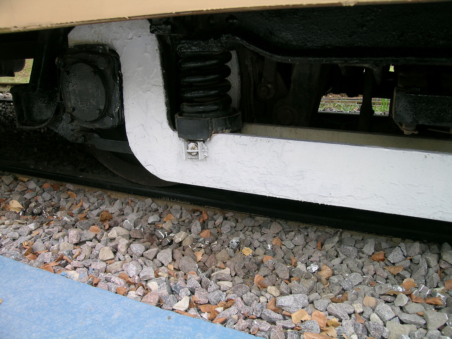 The bogie of LM-49 tramcar